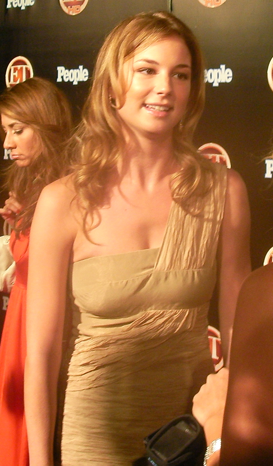 Emily VanCampin ET Post-Emmys Party, Walt Disney Concert Hall, Sept. 21, 2008